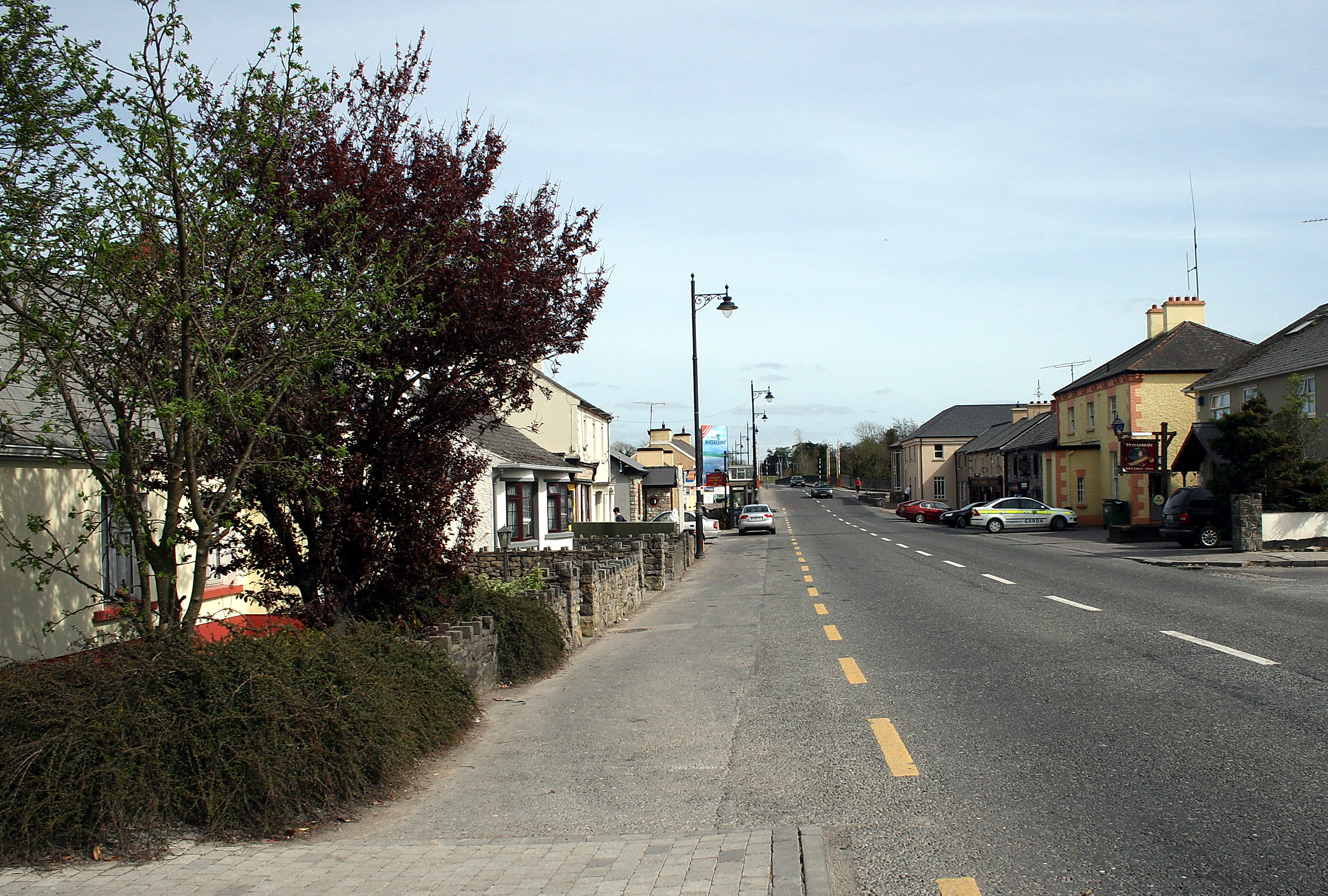 Termonbarry on the N5 heading east